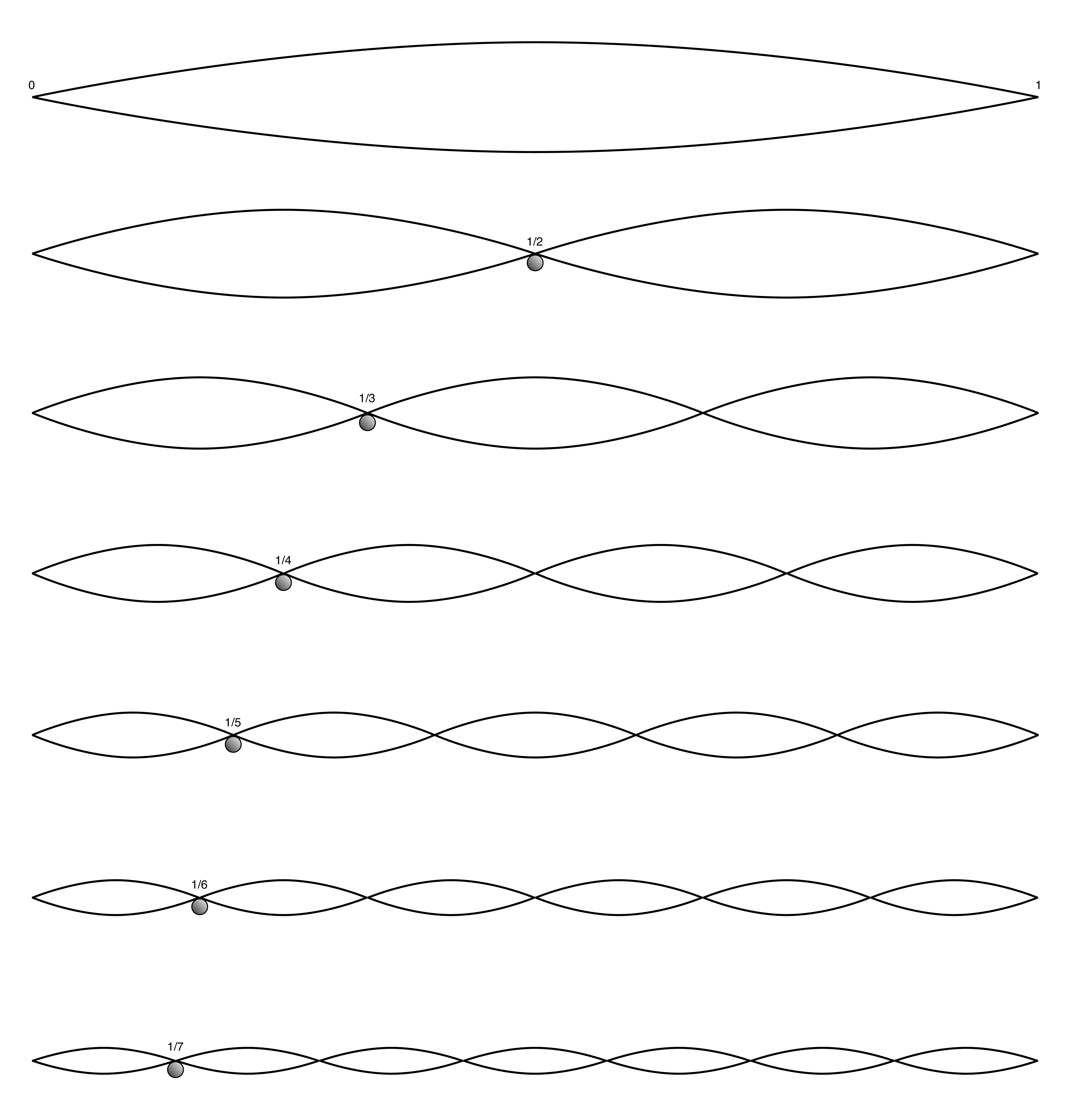 Harmonic partials on strings